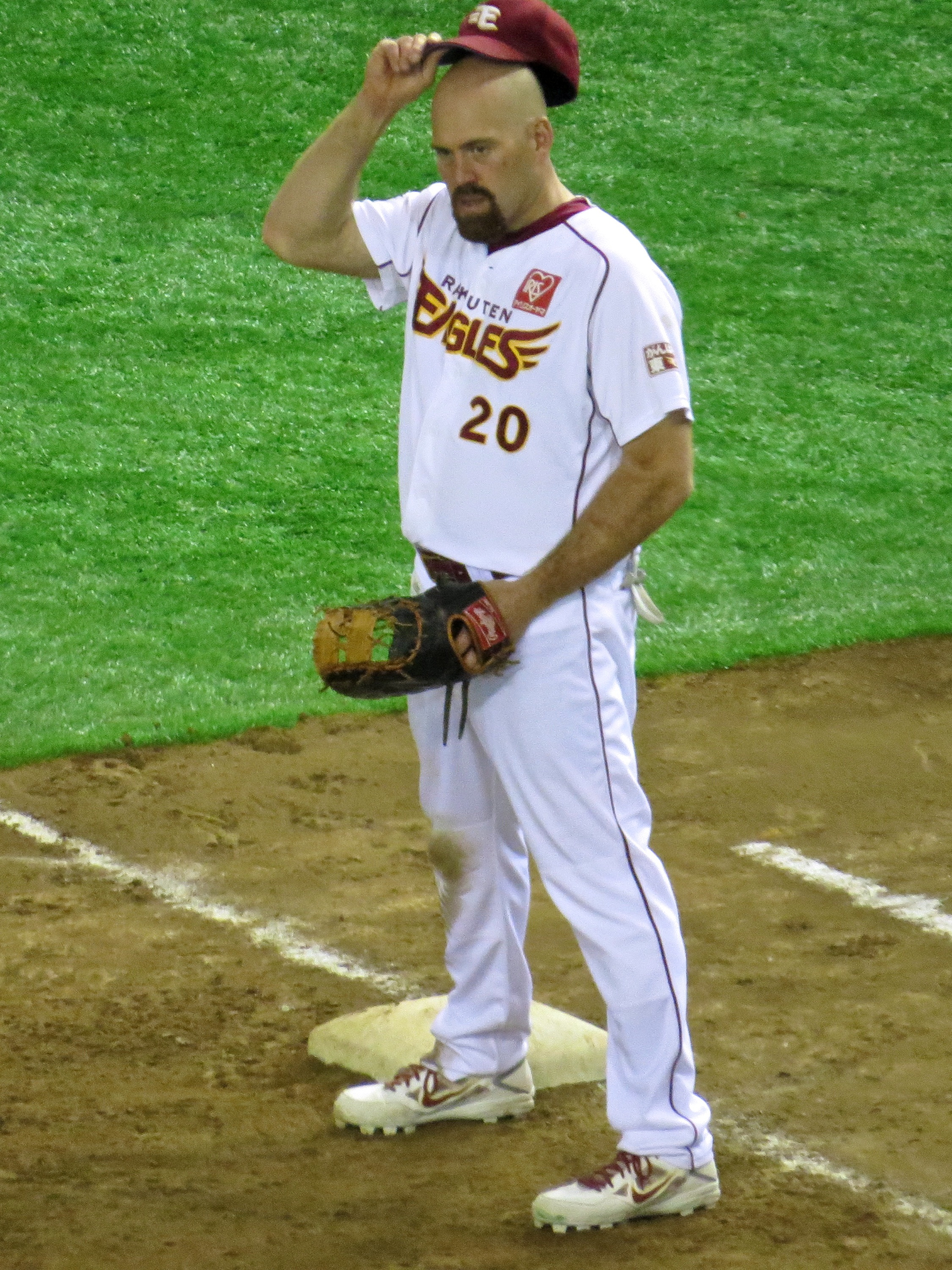 Kevin Youkilis, infielder of the Tohoku Rakuten Golden Eagles, at Tokyo Dome.